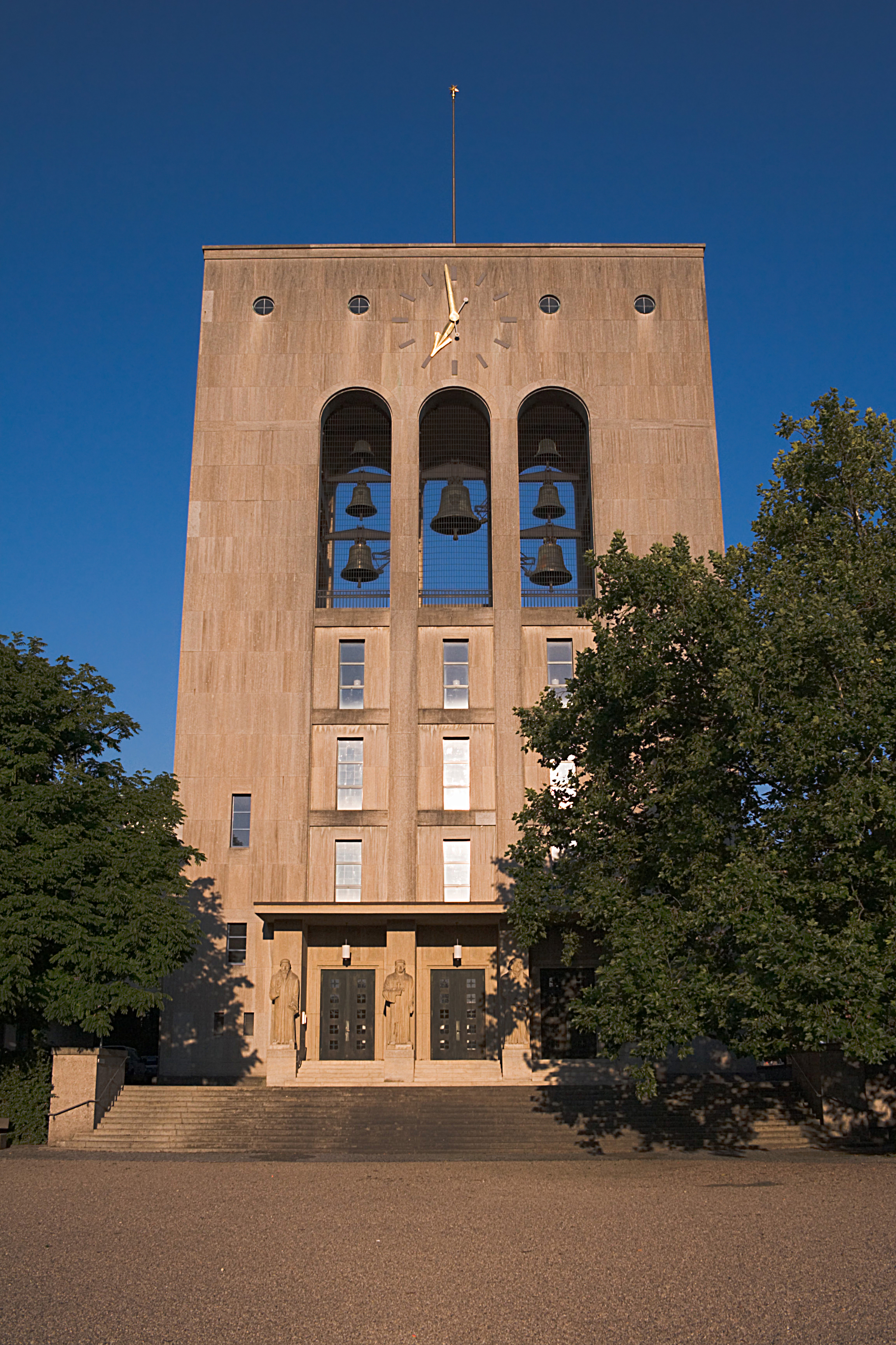 Paulus church in Zurich, Unterstrass quarter, SwitzerlandThis evangelic reformed church was built by Martin Risch and was consacrated January 14th 1934.